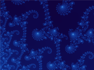 Still from File:Mandelbrot sequence new.gif.